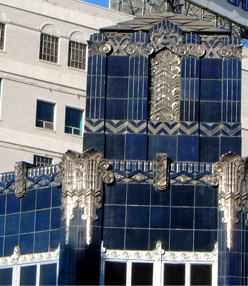 Detail from storefront, 19th and Telegraph, Oakland